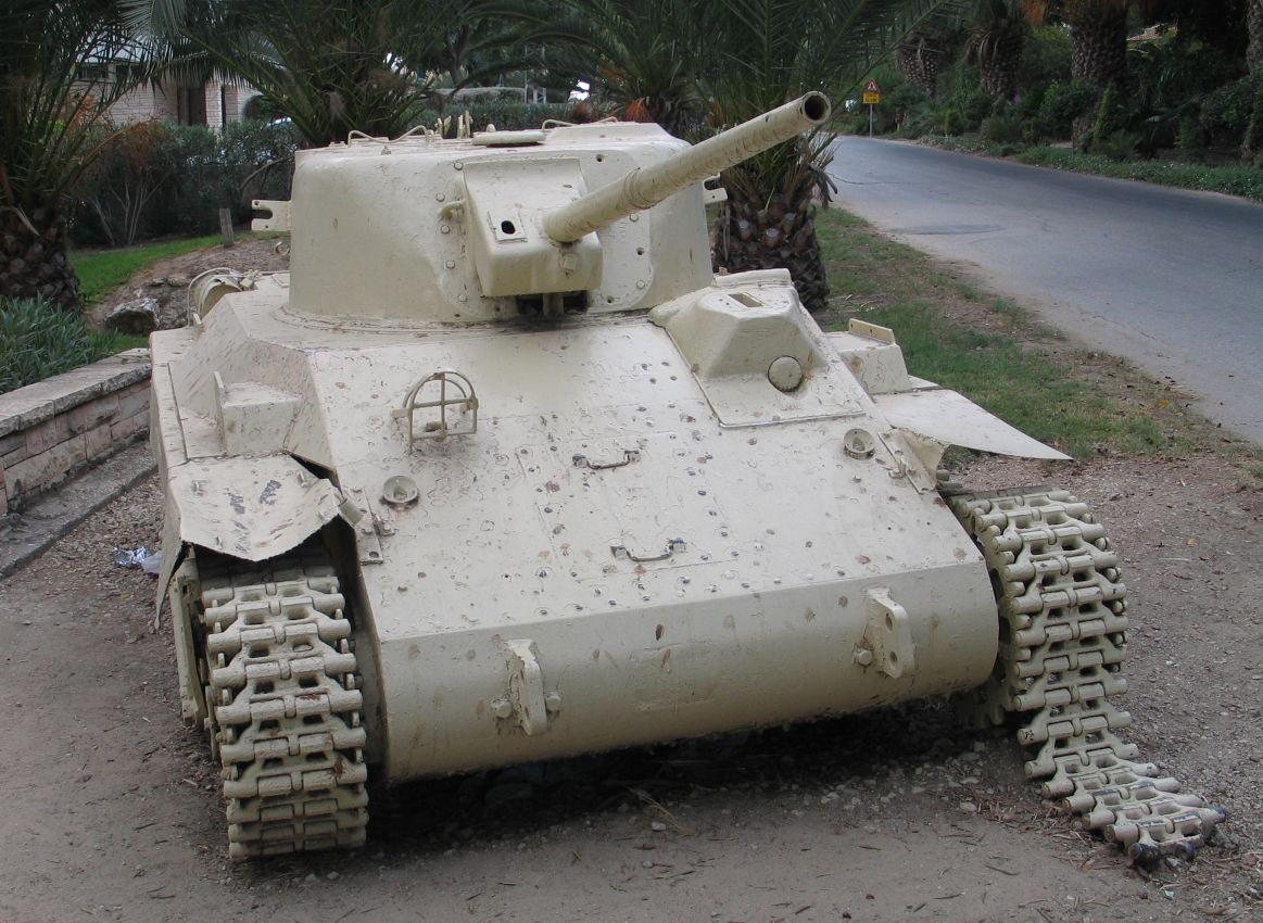 Description: M22 Locust tank in Negba, Israel. 2005. Source: Photo by me, User:Bukvoed.